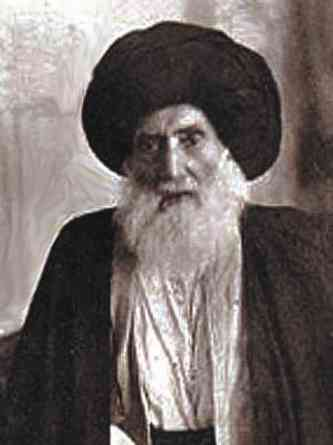 Ayatullah al-Uzma Sayyid Abul Hasan Isfahani (1860–1946), was an Shia Muslim scholar and cleric.